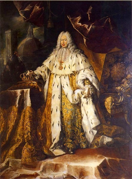 Official portrait of Gian Gastone, last Medici Grand Duke of Tuscany